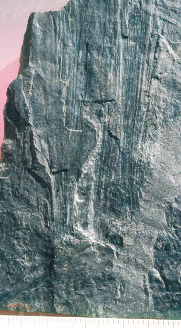 Leafy shoot apex of Pleuromeia longicaulis, the stem of Cylostrobus sydneyensis from the Early Triassic Newport Formation near Avalon, NSW, Australia